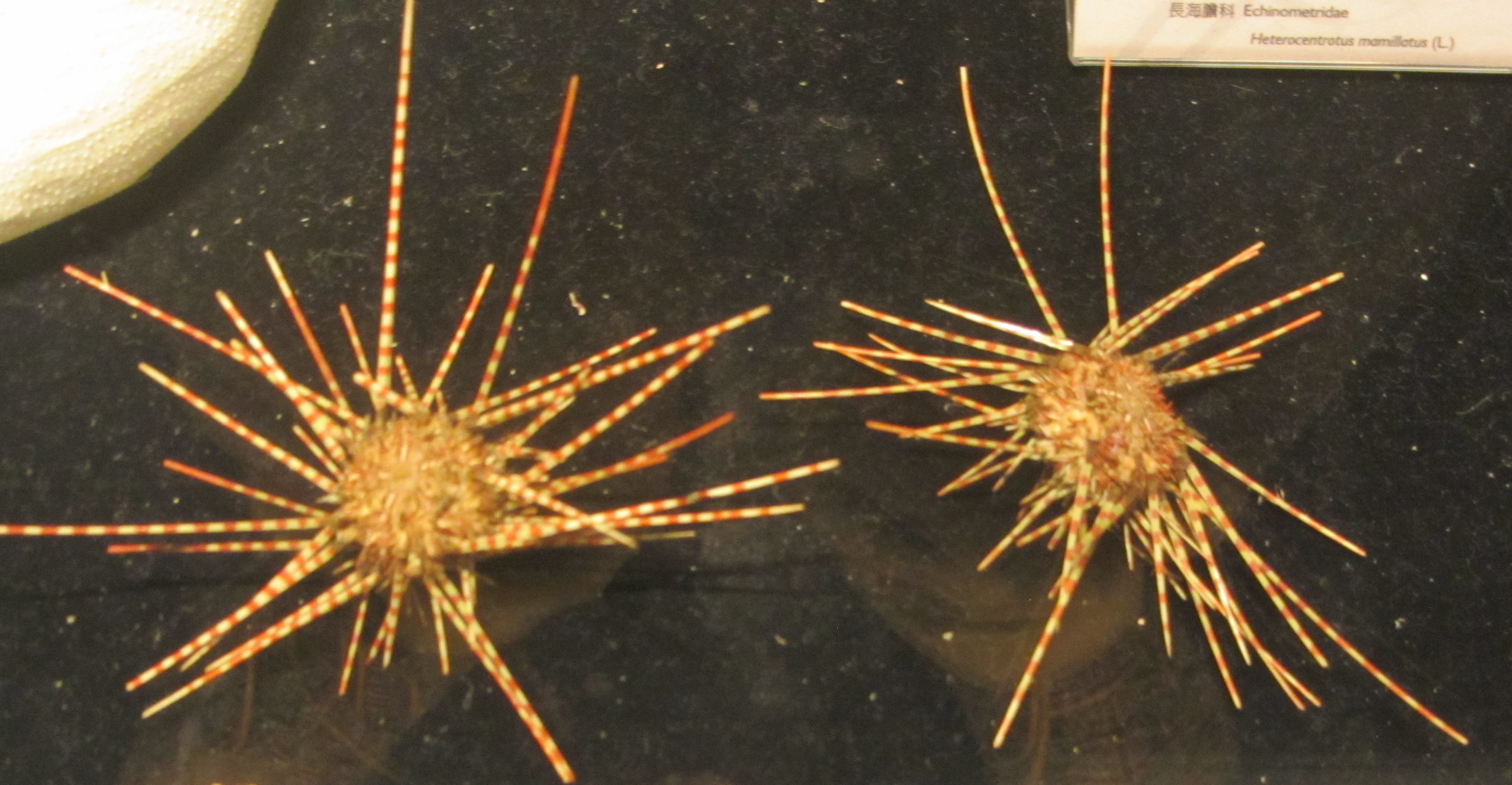 Coelopleurus maculatus